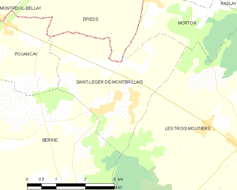 Map of French municipality Saint-Léger-de-Montbrillais